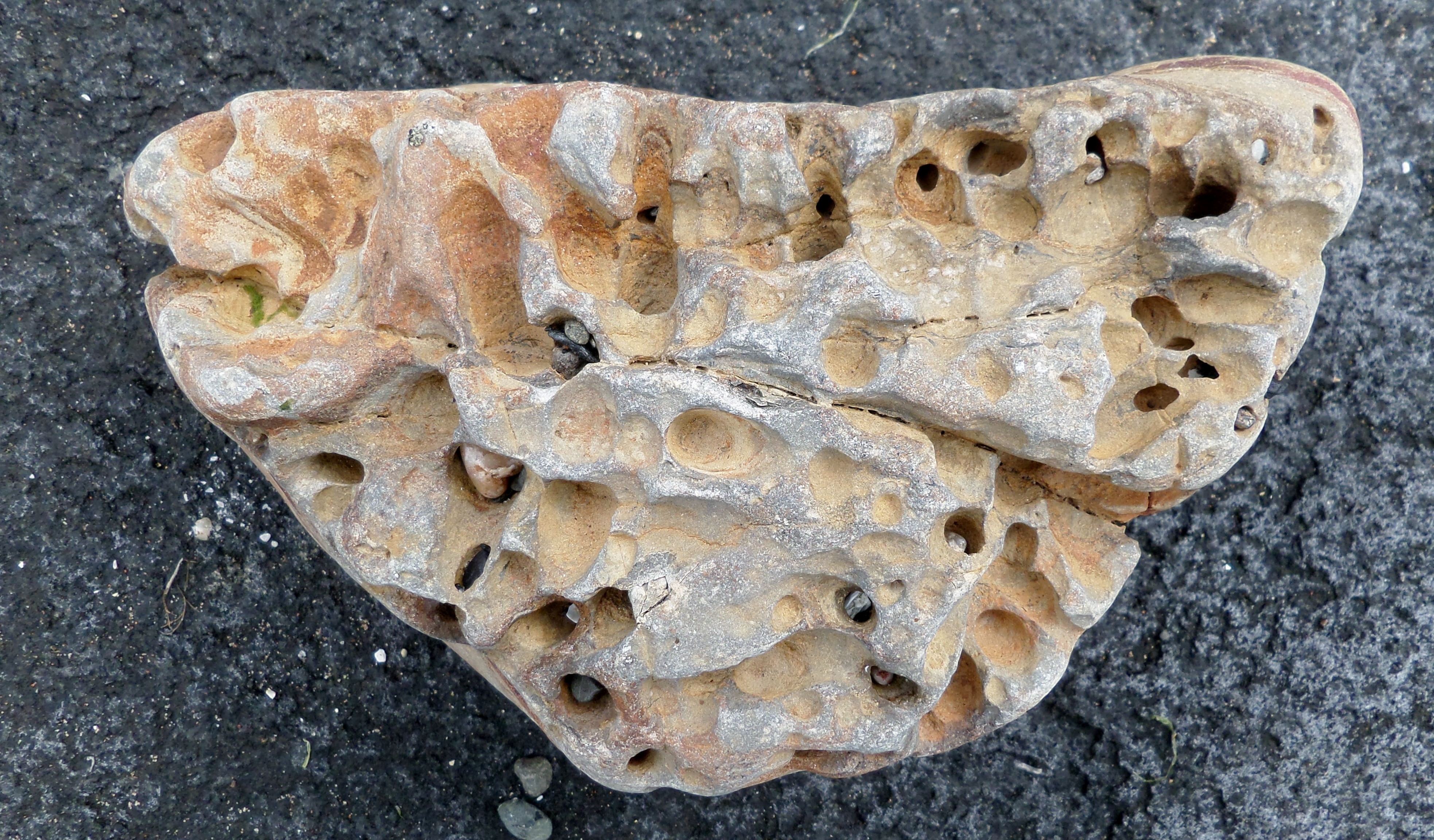 A stone boulder from Prestwick beach burrowed through by mollusc bivalve piddocks, South Ayrshire, Scotland.